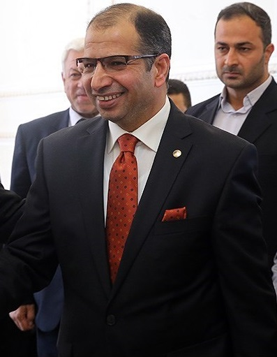 Salim al-Jabouri, Speaker of Iraqi Council of Representatives in meeting with Iranian Foreign Minister Mohammad Javad Zarif in Tehran